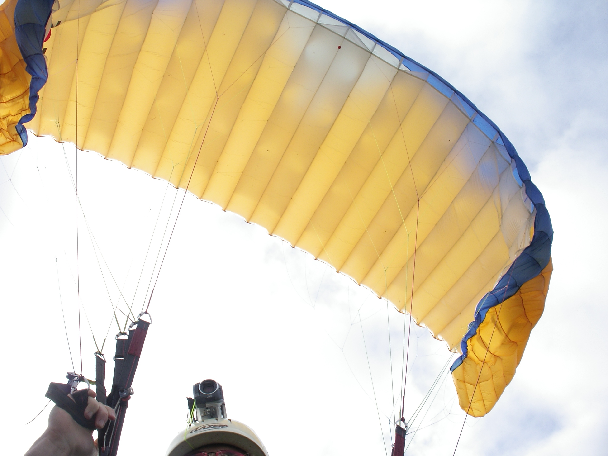 Big ears under a Nova wing.